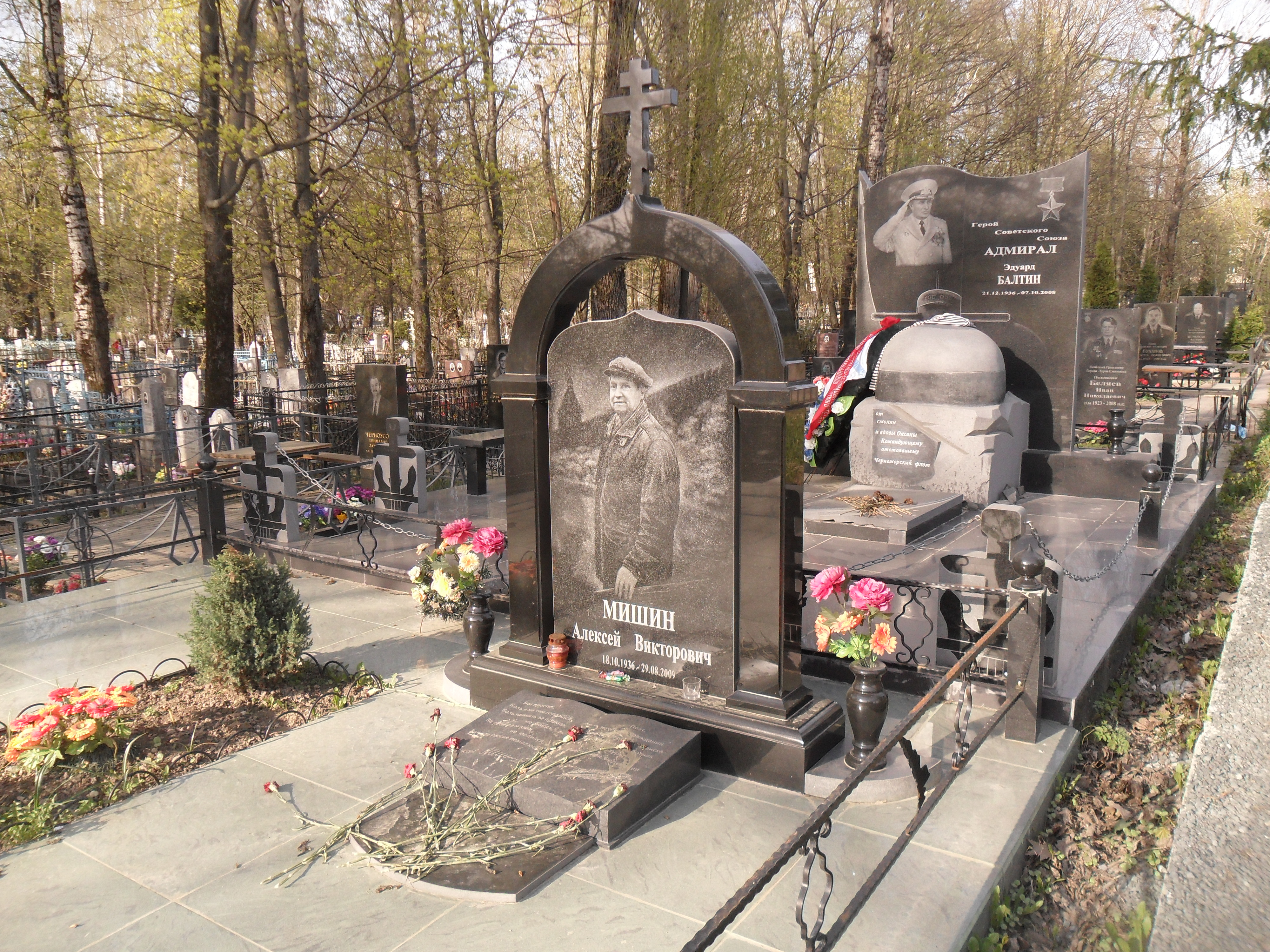 Tomb of honorary citizen of Smolensk, the poet Alexei Mishin at Fraternal Cemetery in Smolensk.